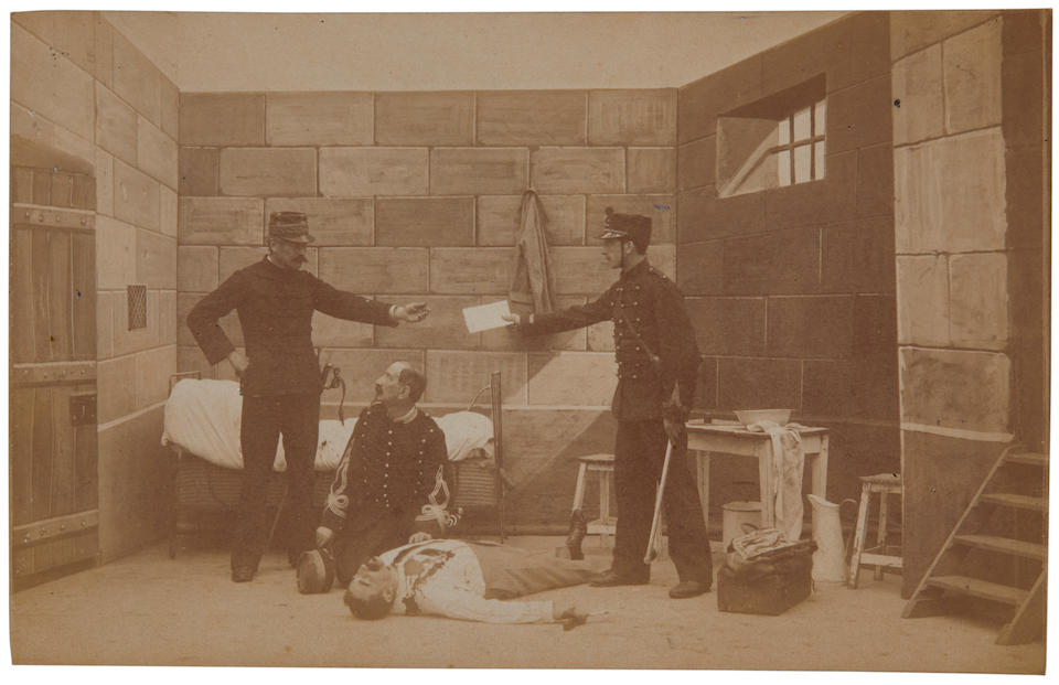 Gelatin silver photographic print of a production still from Suicide of Colonel Henry, an installment in Georges Méliès's 1899 film series The Dreyfus Affair. The print comes from an auction lot that once belonged to Léo Sauvage (1913-1988), who knew and corresponded with Georges Méliès.